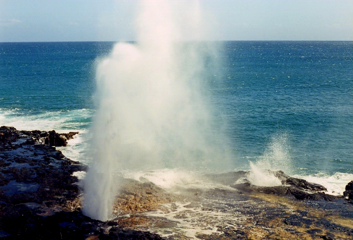 Spouting Horn, a blowhole on the island of Kauai ,Hawaii